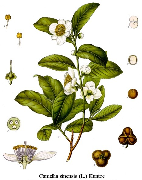 Camellia sinensis drawing